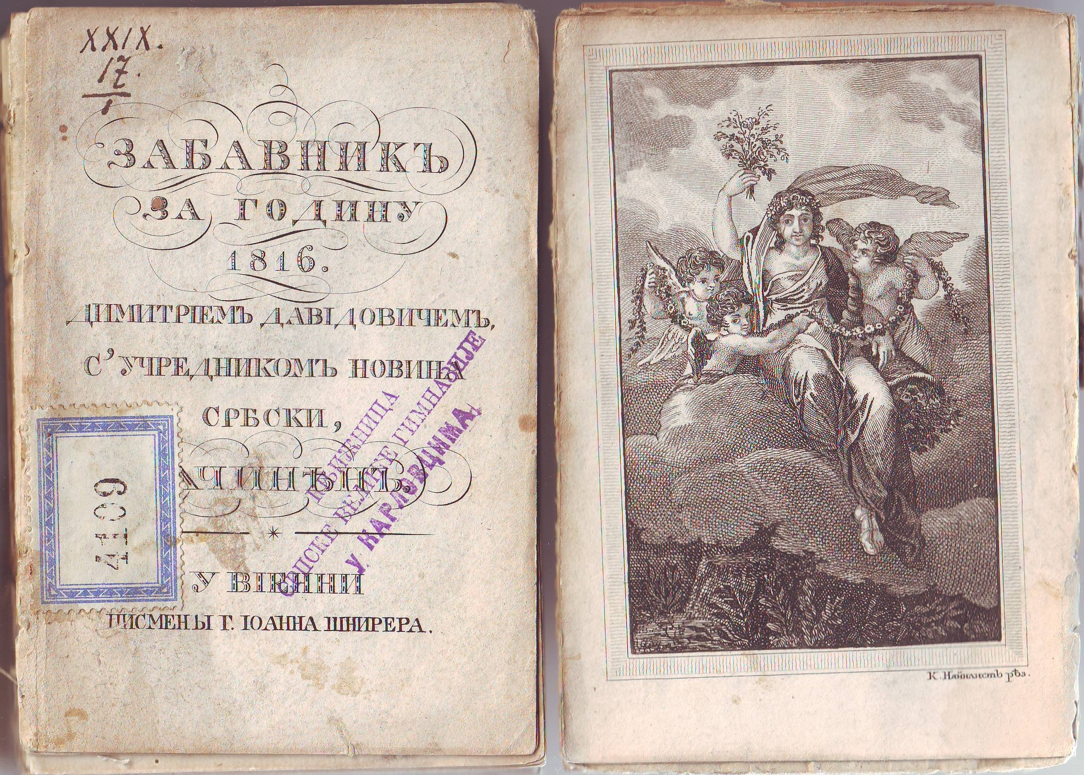 The first two pages of the 1816 edition of Dimitrije Davidović's Zabavnik. Srpski (latinica): Prve dve strane izdanja Zabavnika Dimitrija Davidovića za 1816. godinu.